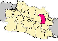 Location of Majalengka county, West Java province, Indonesia